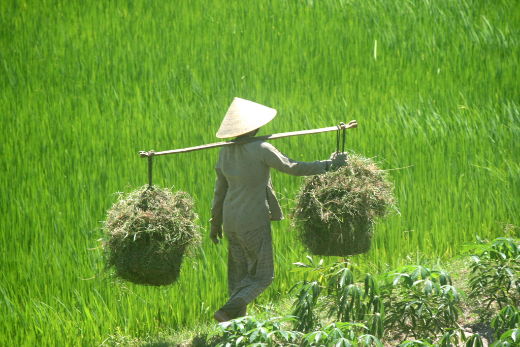 farmer in Binh Dinh Province, Vietnam